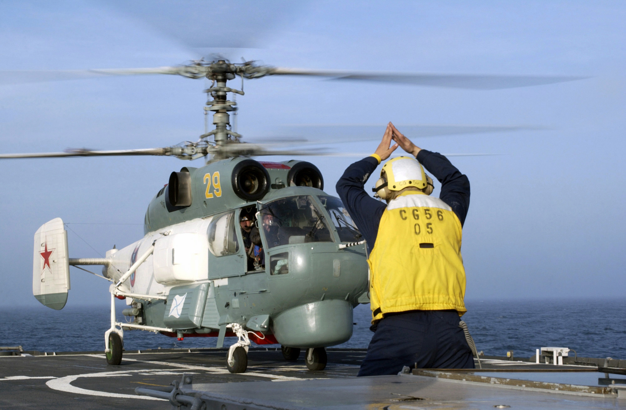 The Russian Kamov KA-27 Helix helicopter makes a successful safe landing on the Ticonderoga Class Cruiser USS SAN JACINTO (CG 56) flight deck, on the Baltic Sea, during the annual maritime Exercise BALTIC OPERATIONS 2003.